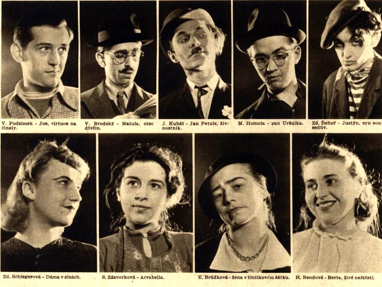 Actors of the theatre Větrník, Prague, 1943